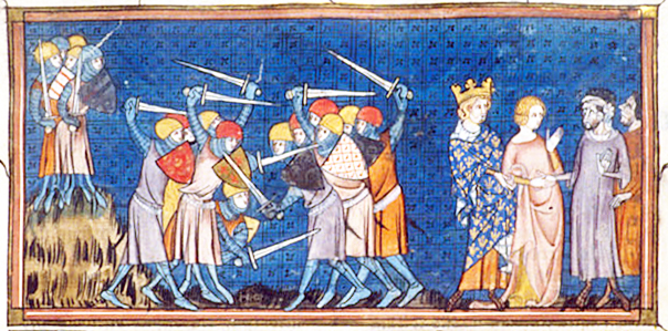 West Frankish king Charles the Simple giving his daughter to the Norman count Rollo.